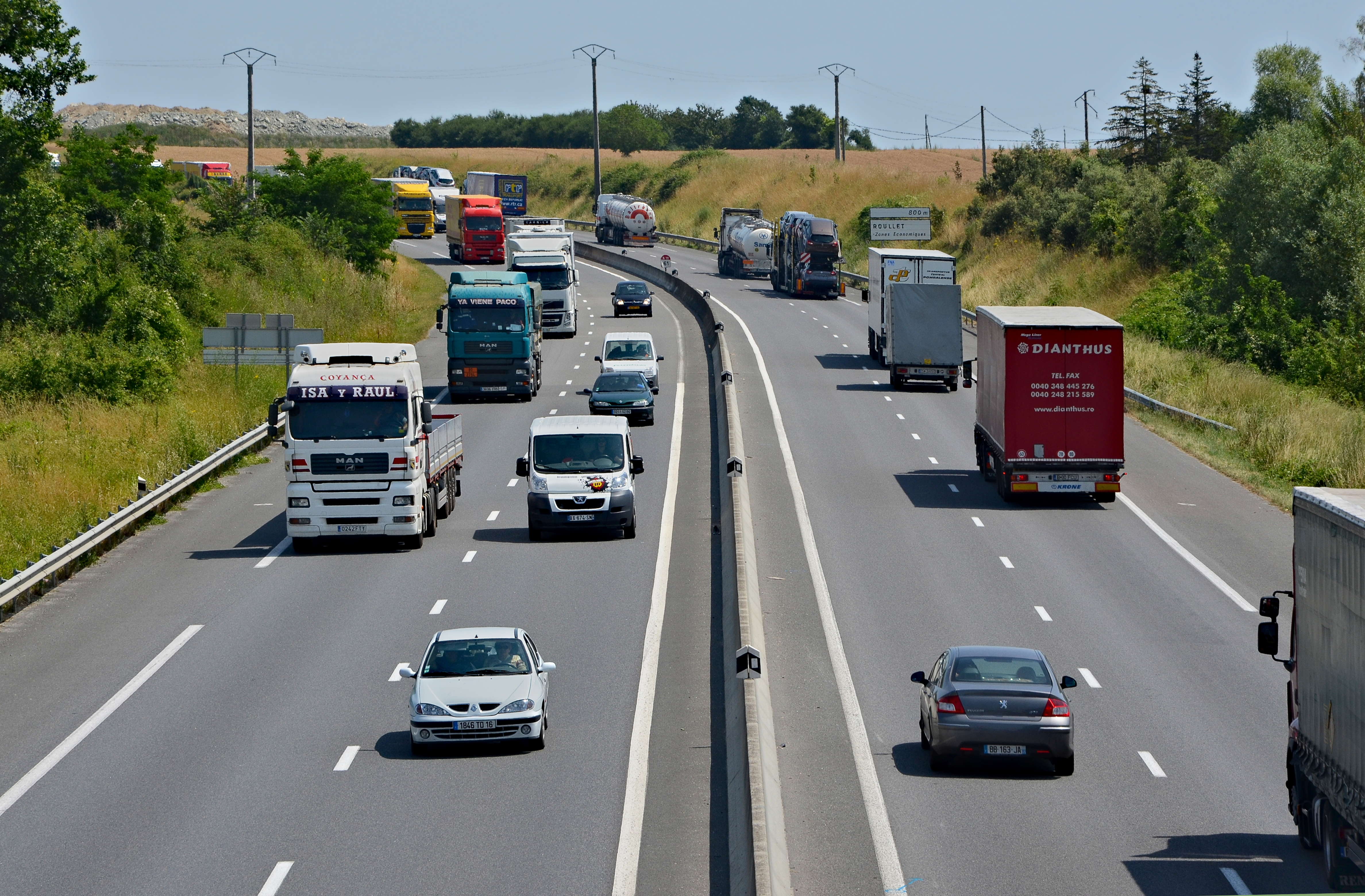 NE view from a bridge on road N 10 (E606), near Roullet-Saint-Estèphe, Charente, France.